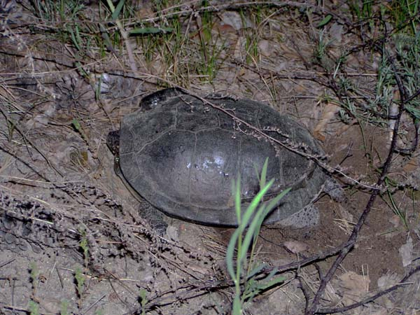 Emys orbicularis female near nest